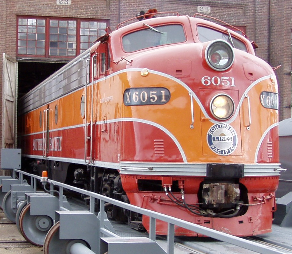 The Southern Pacific 6051, an EMD E9 locomotive, enters the transfer table. Photo taken by Evan Jennings, Nov, 2006, Old Sacramento SP shops.